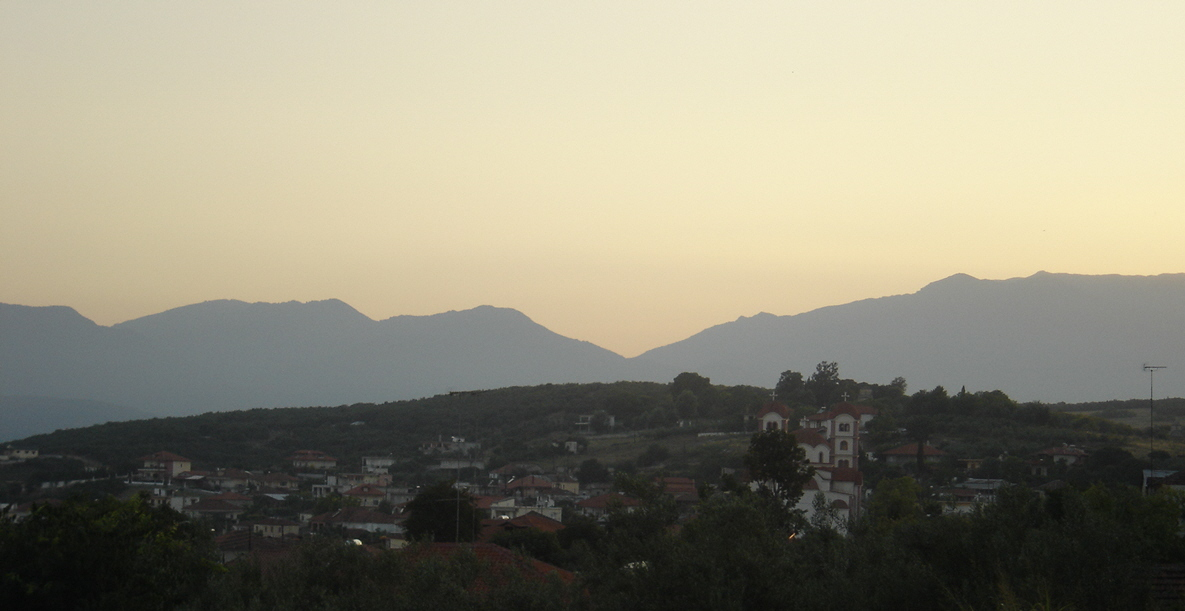 View from Kondariotissa with Mount Olympus seen.